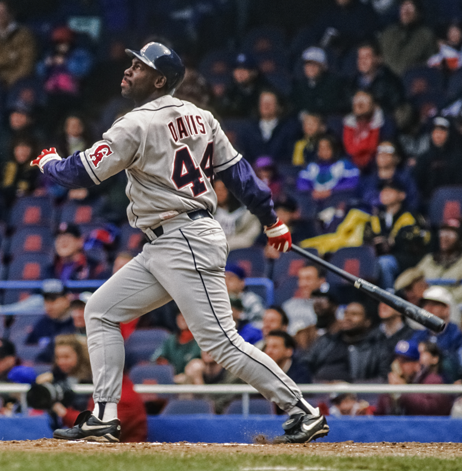 The California Angels played the Detroit Tigers @ Tiger Stadium on April 13, 1996. Chili Davis flies to left the 5th inning. Check out the boxscore @